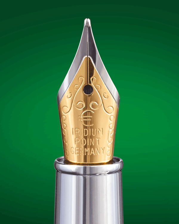 Europen Nib